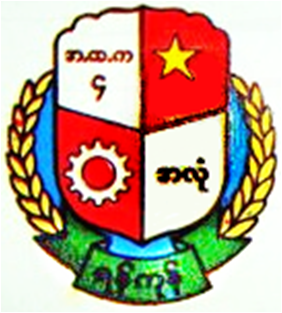 School Badge of Basic Education High School No. 4 Ahlone